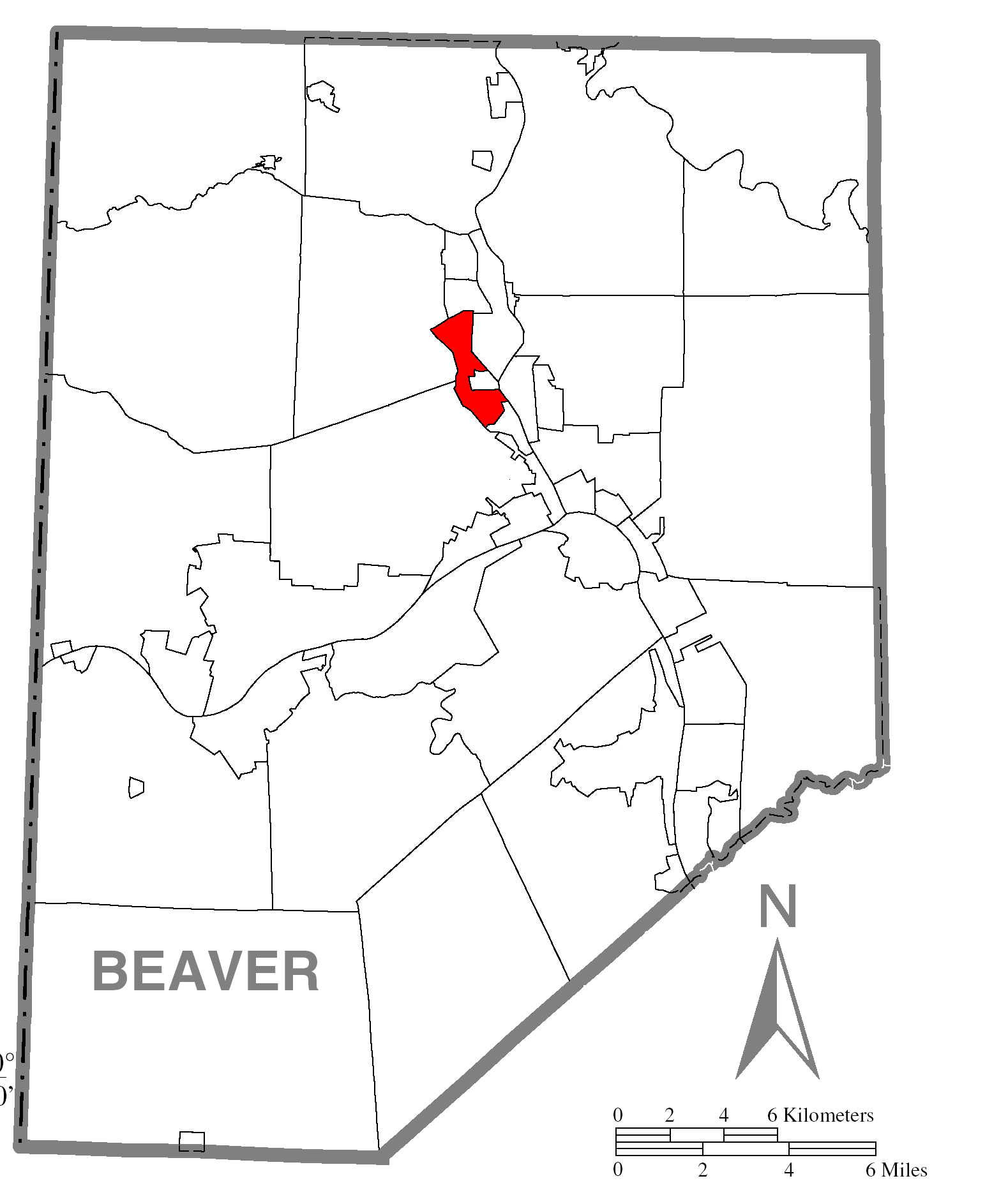 A map of Beaver County showing Patterson Township, Pennsylvania (alternate) highlighted on the map.